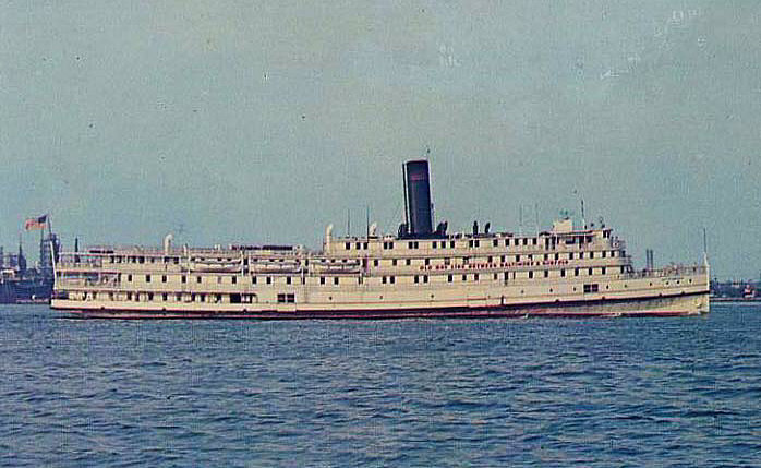 The Baltimore Steam Packet Company's City of Richmond steamboat in a 1949 photo